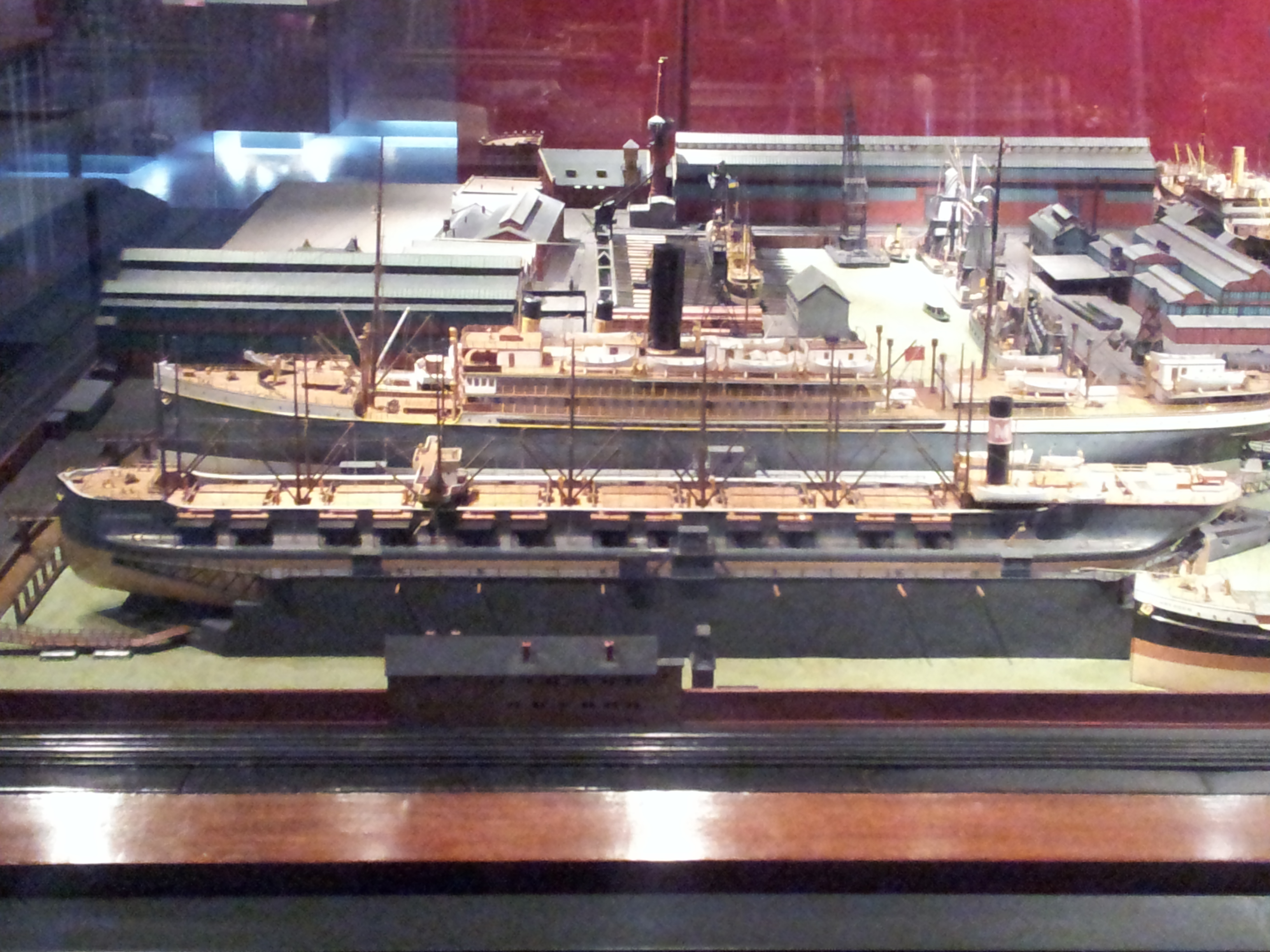 Model of Grängesberg in drydock at the Maritime Museum Rotterdam in the Netherlands. The ship was later renamed Beukelsdijk and was seized by the US Navy during World War I and commissioned as USS Beukelsdijk.